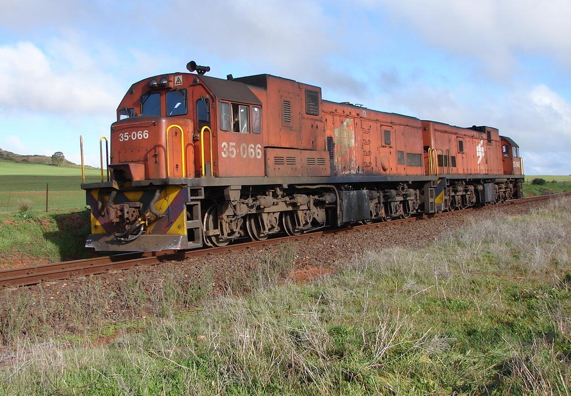 South African Class 35-000 35-066 Builder's Number: GE 38739 Type: GE U15C Location: Biesiesfontein Farm, near Moorreesburg, Western Cape